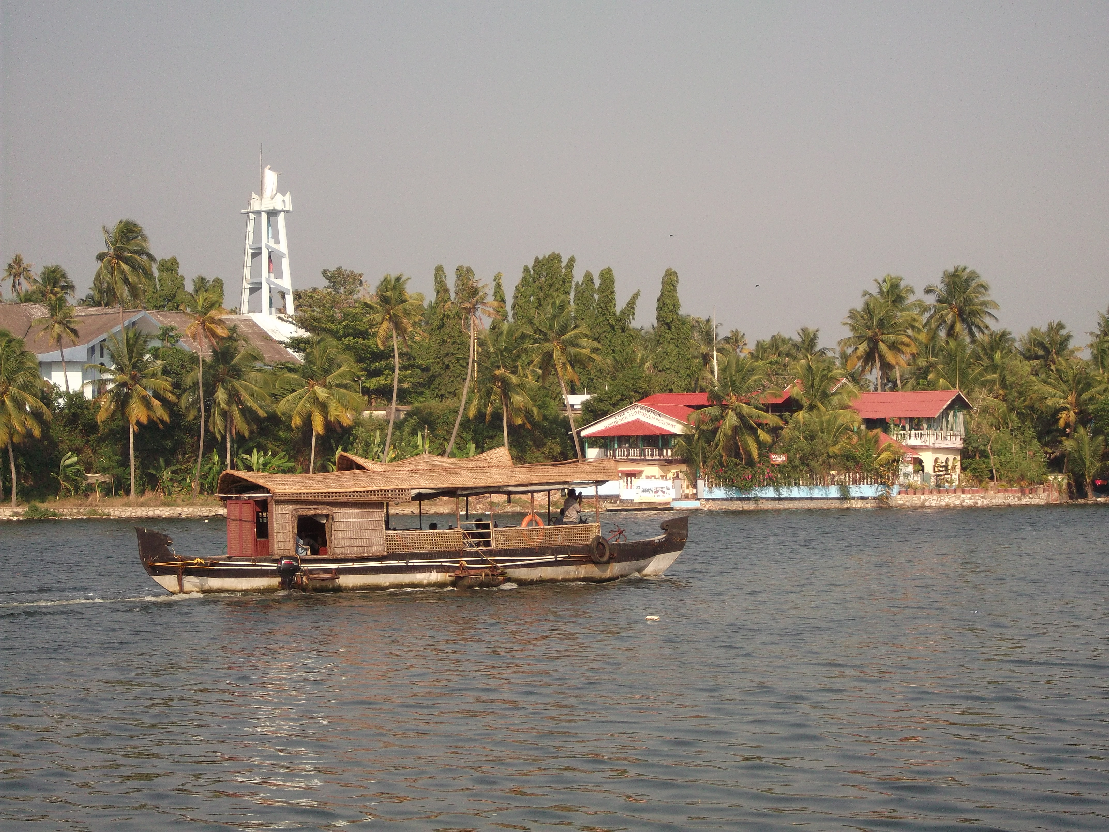 A house boat moving through the Ashtamudi Lake